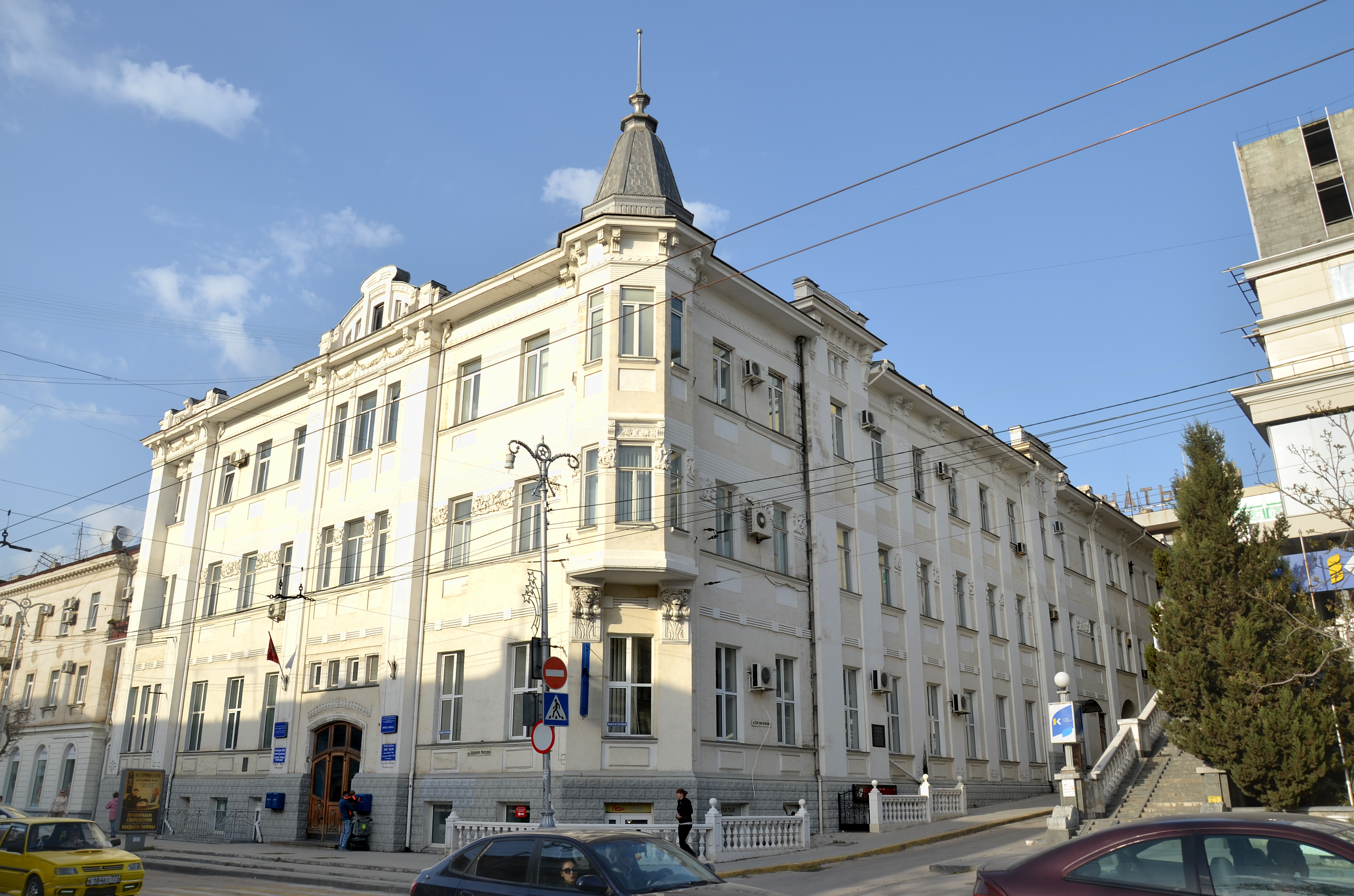 Sevastopol Main Post Office